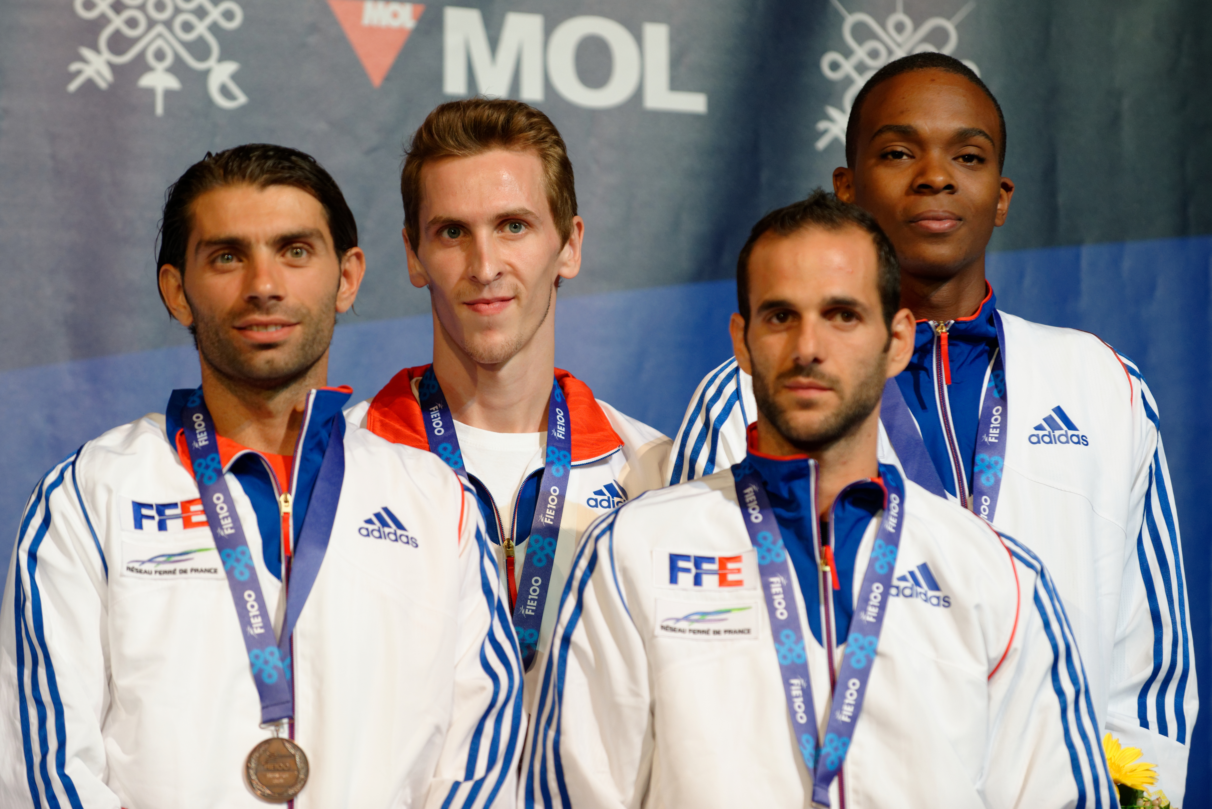 France's men foil team (from left to right, Marcel Marcilloux, Jérémy Cadot, Erwann Le Péchoux and Enzo Lefort) stand on the podium of the 2013 World Fencing Championships 2013 at Syma Hall in Budapest, 12 August 2013.